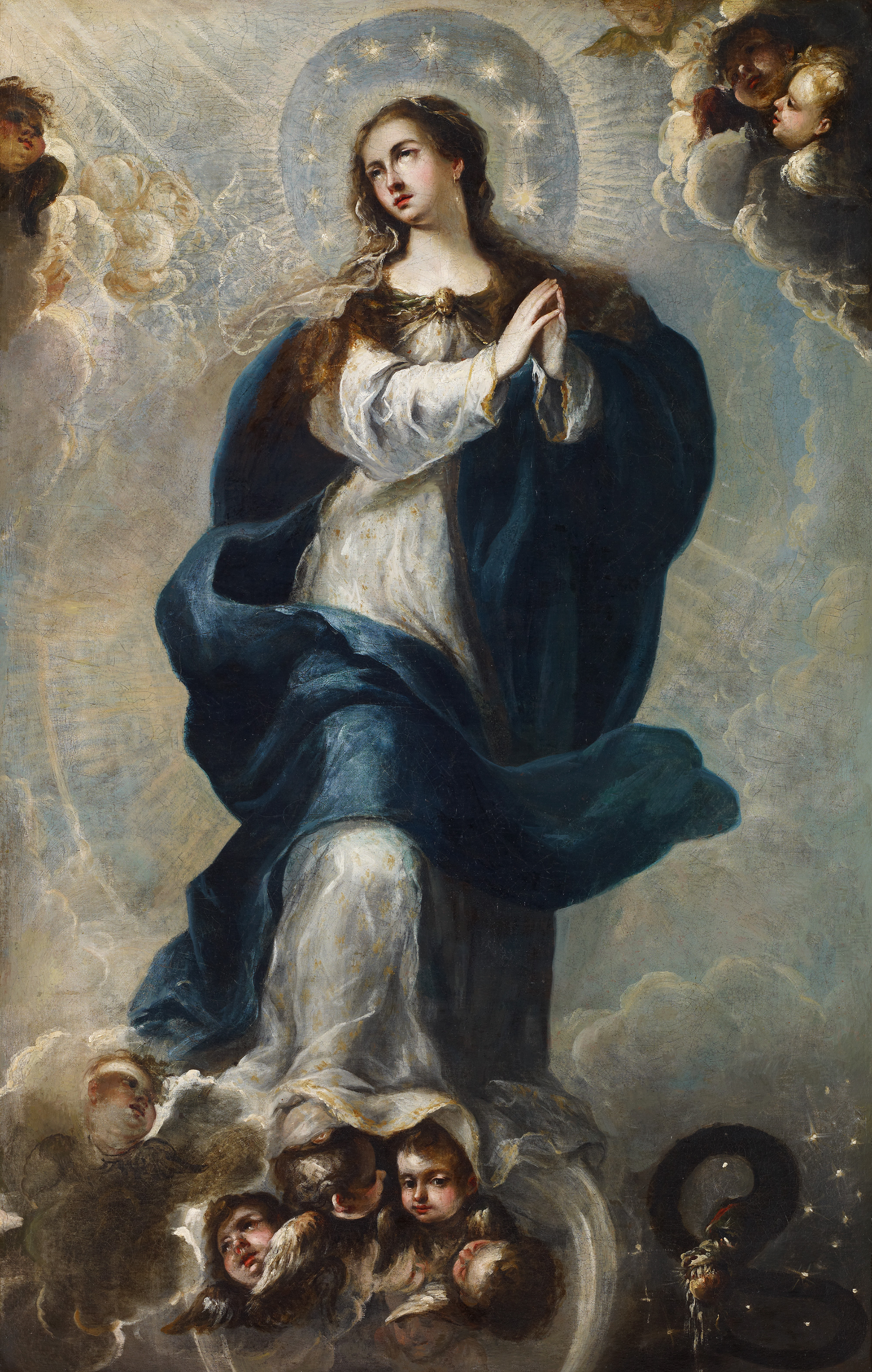 Immaculate Conception; Oil on canvas; 165.2 x 106.5 cm; Museo Carmen Thyssen Málaga, Inv. CTB.2006.30 Museo Carmen Thyssen Native nameMuseo Carmen ThyssenLocationMálaga, SpainCoordinates36° 43′ 17″ N, 4° 25′ 22″ W Established2011Website